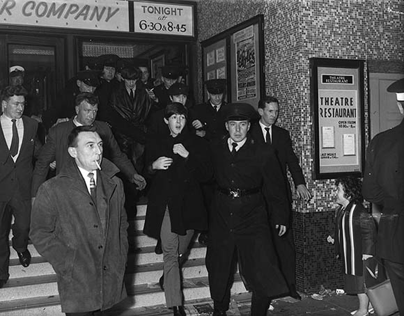 The Beatles emerging from the Ritz Cinema, Fisherwick Place, Belfast following their concert. Can't spot Ringo Starr, so perhaps he was still inside. They had played the Adelphi Cinema in Dublin the day before. The Irish Times, Friday, 8 November 1963, reported this brief political exchange in Belfast the day before the concert, under the headline Should Beatles be shaved or shot? "The Beatles got short shrift from the Minister of Home Affairs, Mr. William Craig, in the Northern Ireland Commons yesterday. He was asked by Mr. Patrick Gormley (Nat.), whether he had considered mobilisation of sections of the B Specials for the visit of the group to Belfast. He replied curtly: "No, Sir." Mr. Gormley then asked the Minister if he was aware that the visit was an occasion for non-squares and in view of the fact that there was such a high proportion of non-squares in the B Specials, was he not missing a "golden opportunity." Mr. Harry Diamond (Rep. Lab.), said the kindly people of Belfast would prefer shaving them to shooting them. ... Mr. Edward Richardson (Nat.), asked would the Minister not consider an all-Ireland tax on Beatle hair cuts. There was no reply." Date: Friday, 8 November 1963 NLI Ref.: INDMC9903